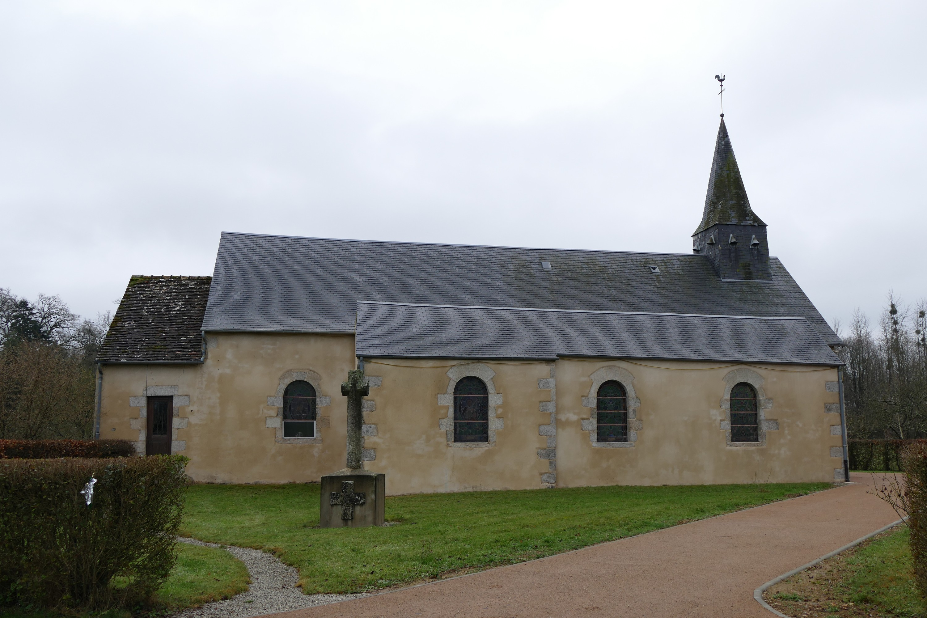 Saint-Gervais-and-Saint-Protais' church in Saint-Gervais-du-Perron (Orne, Normandie, France).